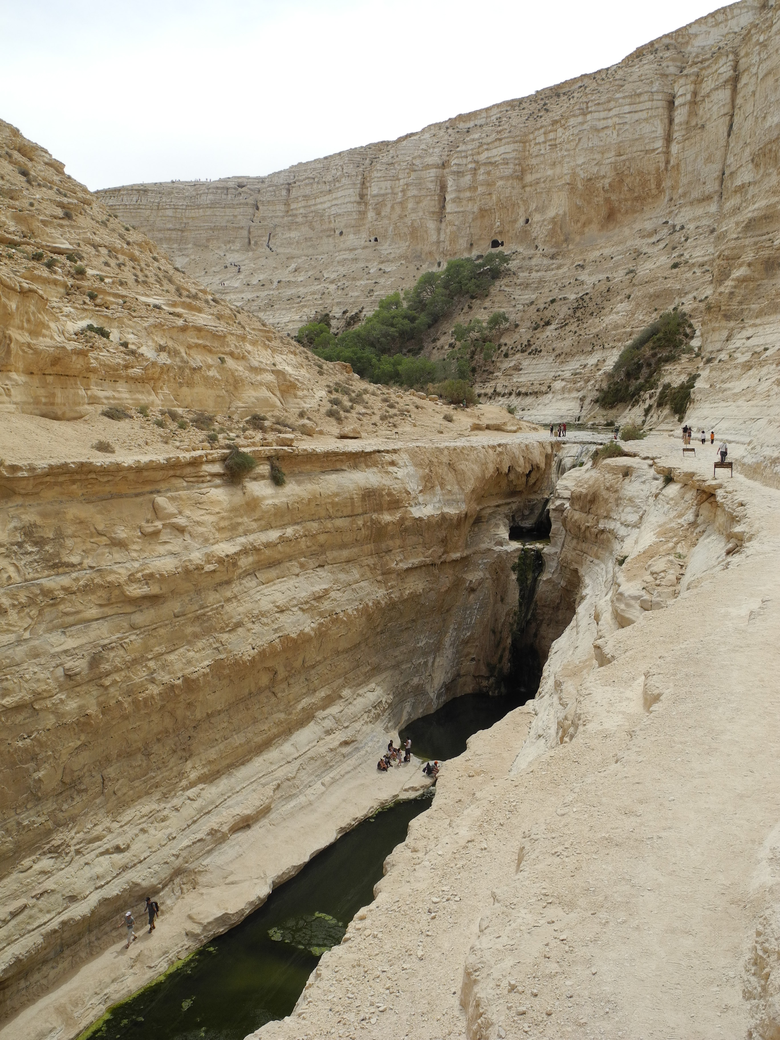 Ein Ovdat nature reserve